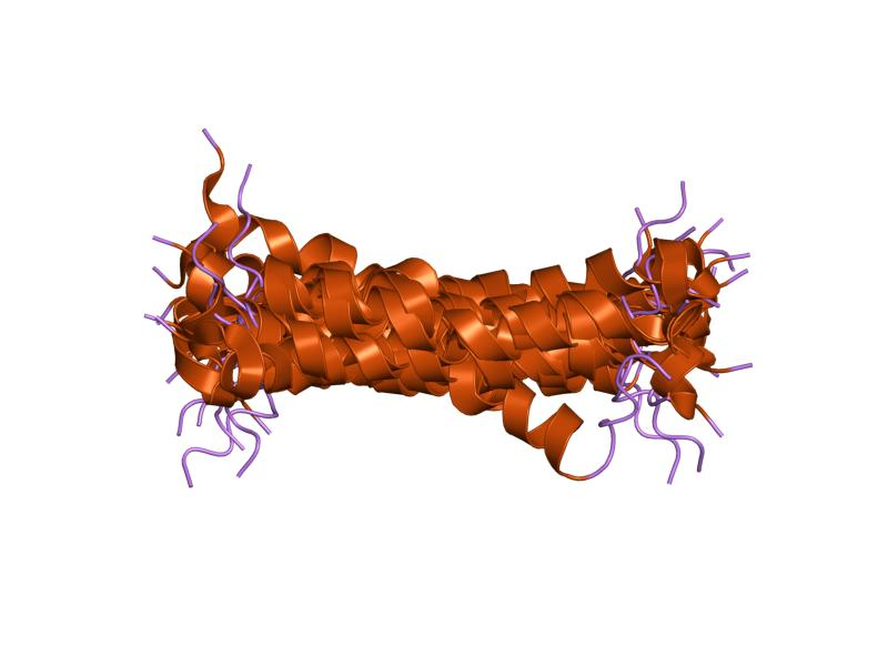 Cartoon representation of the molecular structure of protein registered with 1eze code.